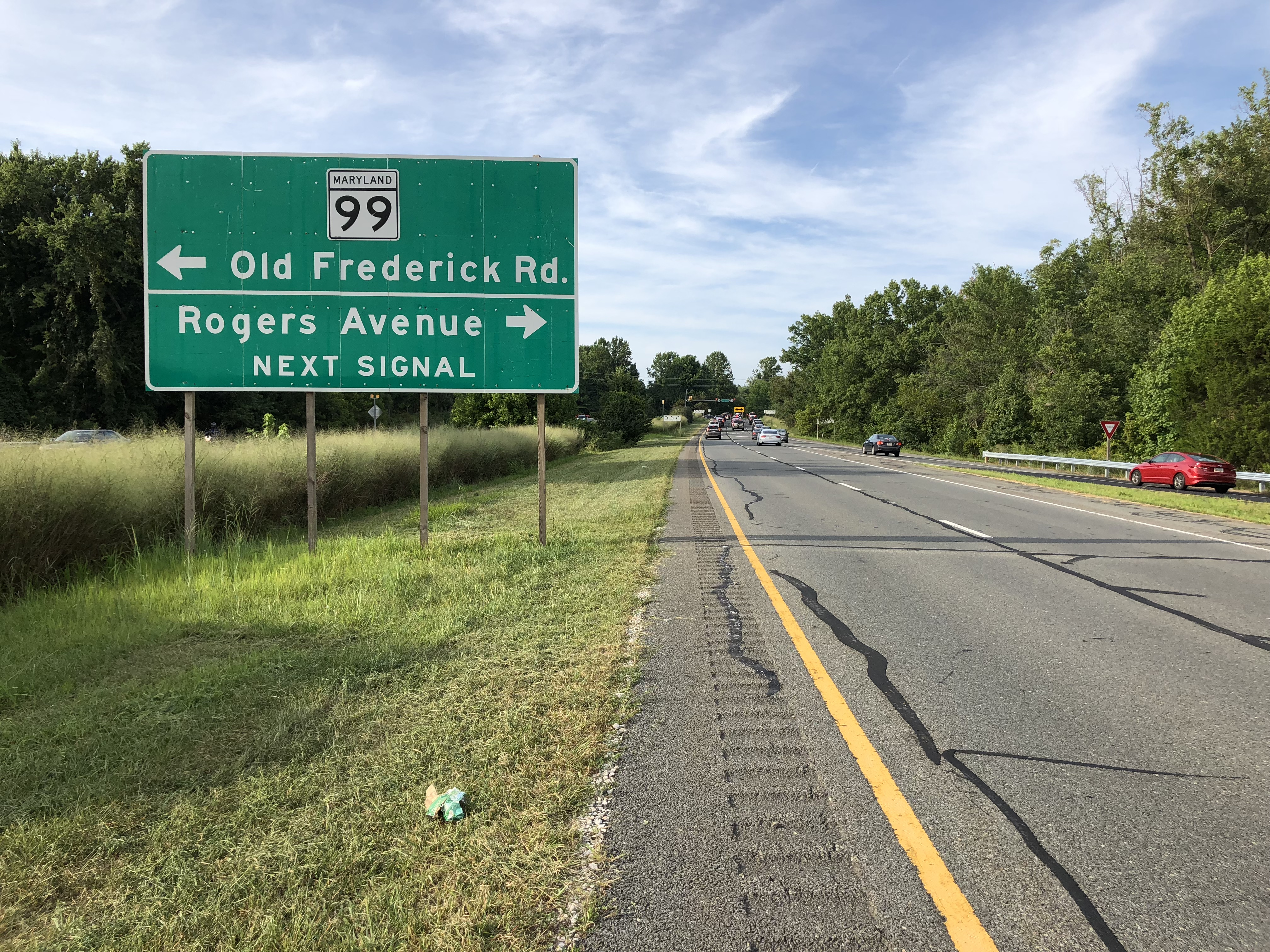 View north along U.S. Route 29 (Columbia Pike) just south of Maryland State Route 99 (Old Frederick Road/Rogers Avenue) in Ellicott City, Howard County, Maryland